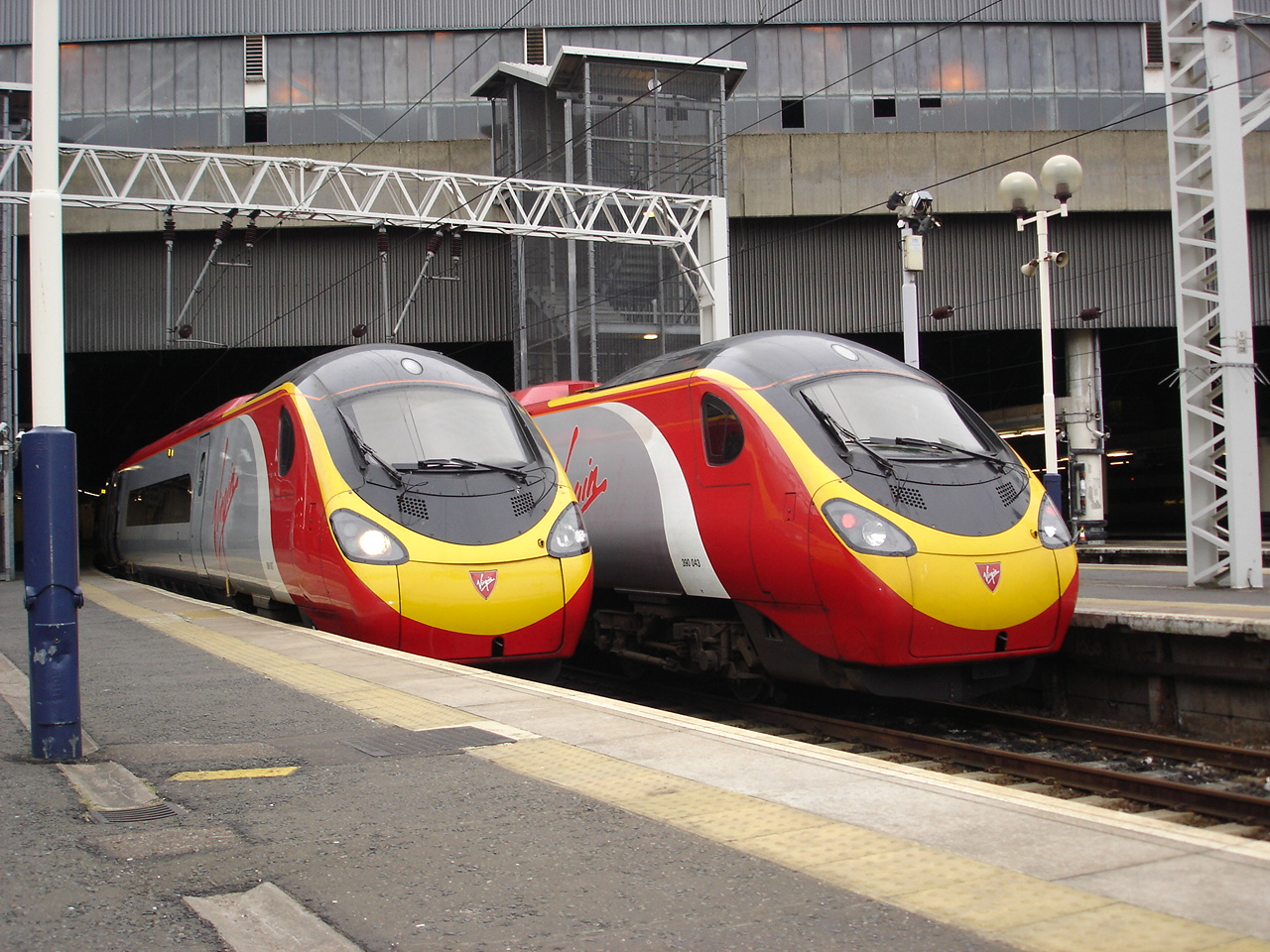 The Class 390 Pendolino is a type of electric high-speed train used in Great Britain. They are electric multiple units using Fiat's tilting train pendolino technology and built by Alstom. Fifty-three 9-car units were originally built for Virgin Trains from 2001 to 2004 for operation on the West Coast Main Line (WCML), with a further four trains and 62 cars built 2009-2012. The original batch of trains were the last to be assembled at Alstom's Washwood Heath plant, in Birmingham, before its closure in 2005.